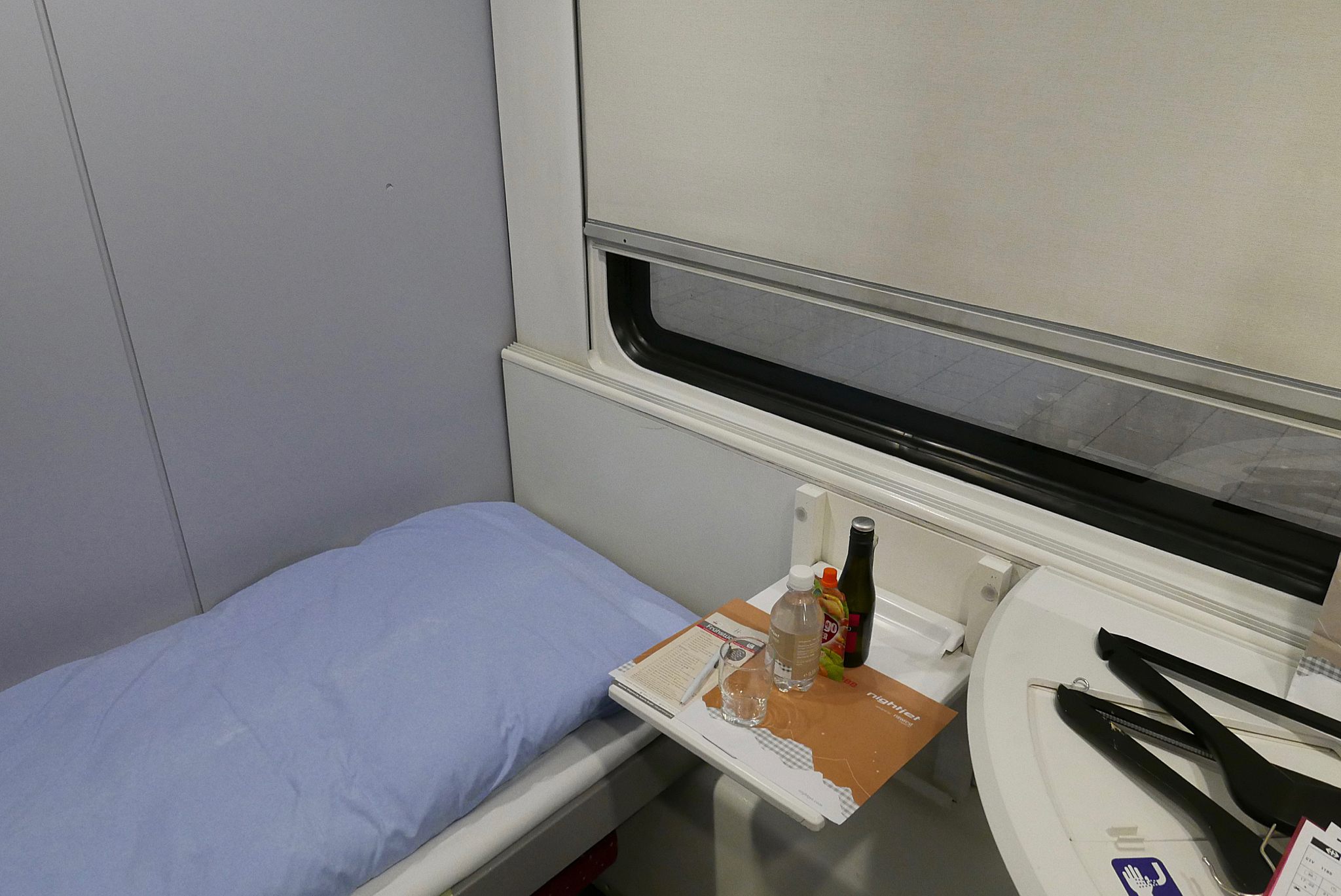 Economy Single compartment on an ÖBB double-decker sleeping car in the consist of EuroNight 470 Zürich HB - Hamburg-Altona.